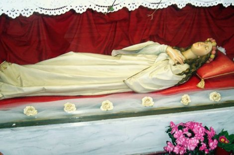 Statue of Saint Filomena in Molve, CroatiaHrvatski: Kip sv. Filomene u Molvama, neočekivano pronađen 2007.